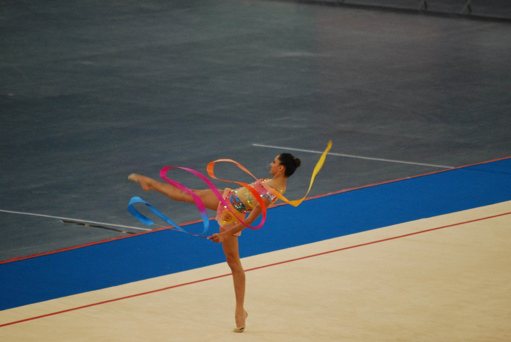 This image is of Australian rhythmic gymnast Naazmi Johnston.